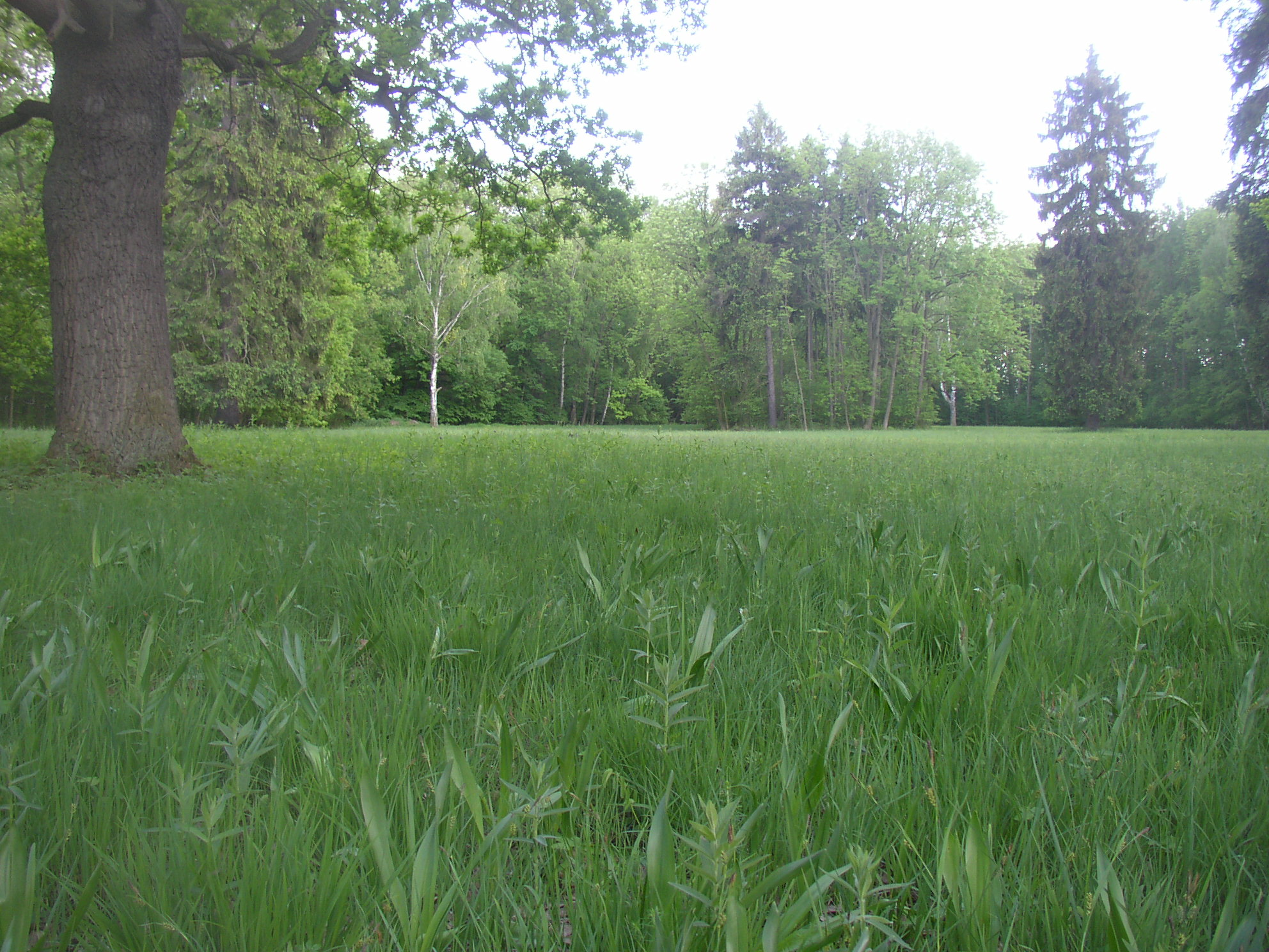 Slatinná louka u Liblic nature reserve, an orchid meadow in park of Liblice Chateau, Mělník District, Czech Republic.